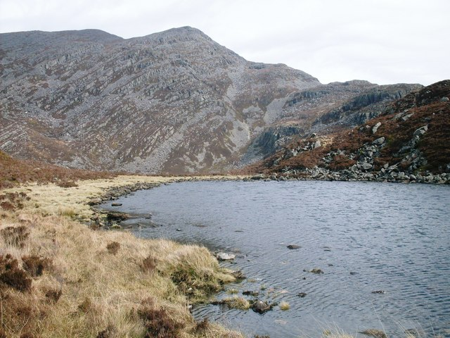 Llyn Cwmhosan and Rhinog Fawr